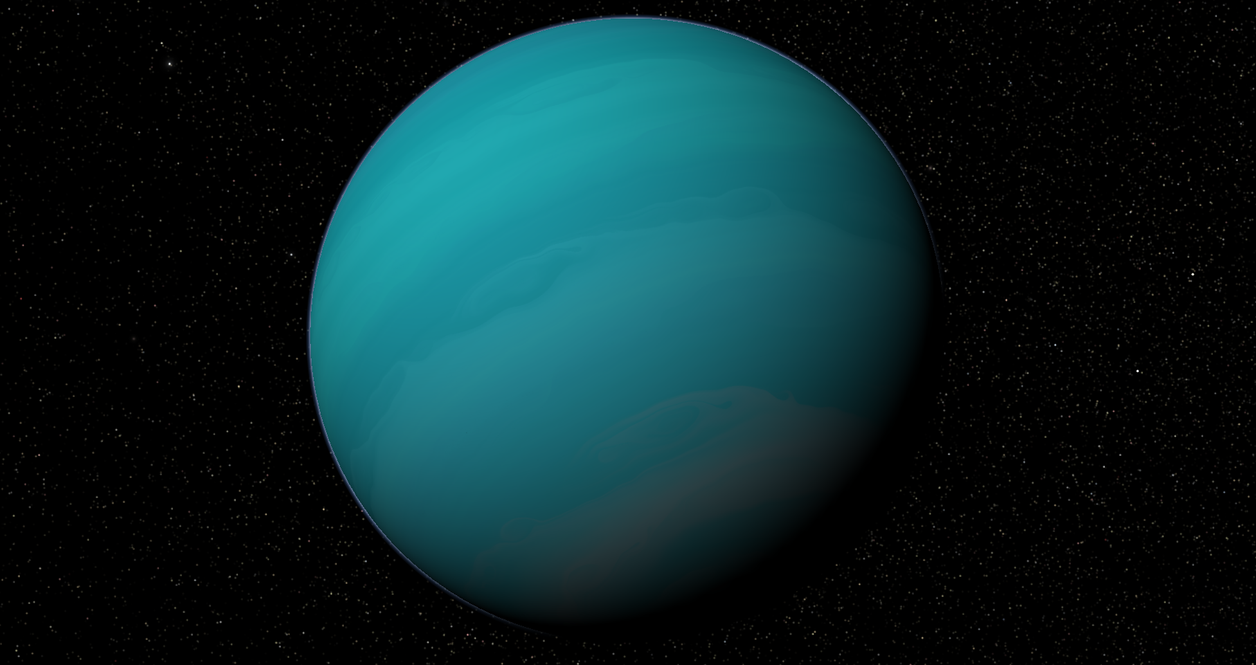 Exo-planet Gliese876 b